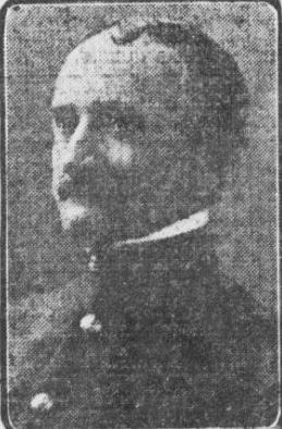 Andrew Summers Rowan, circa 1904